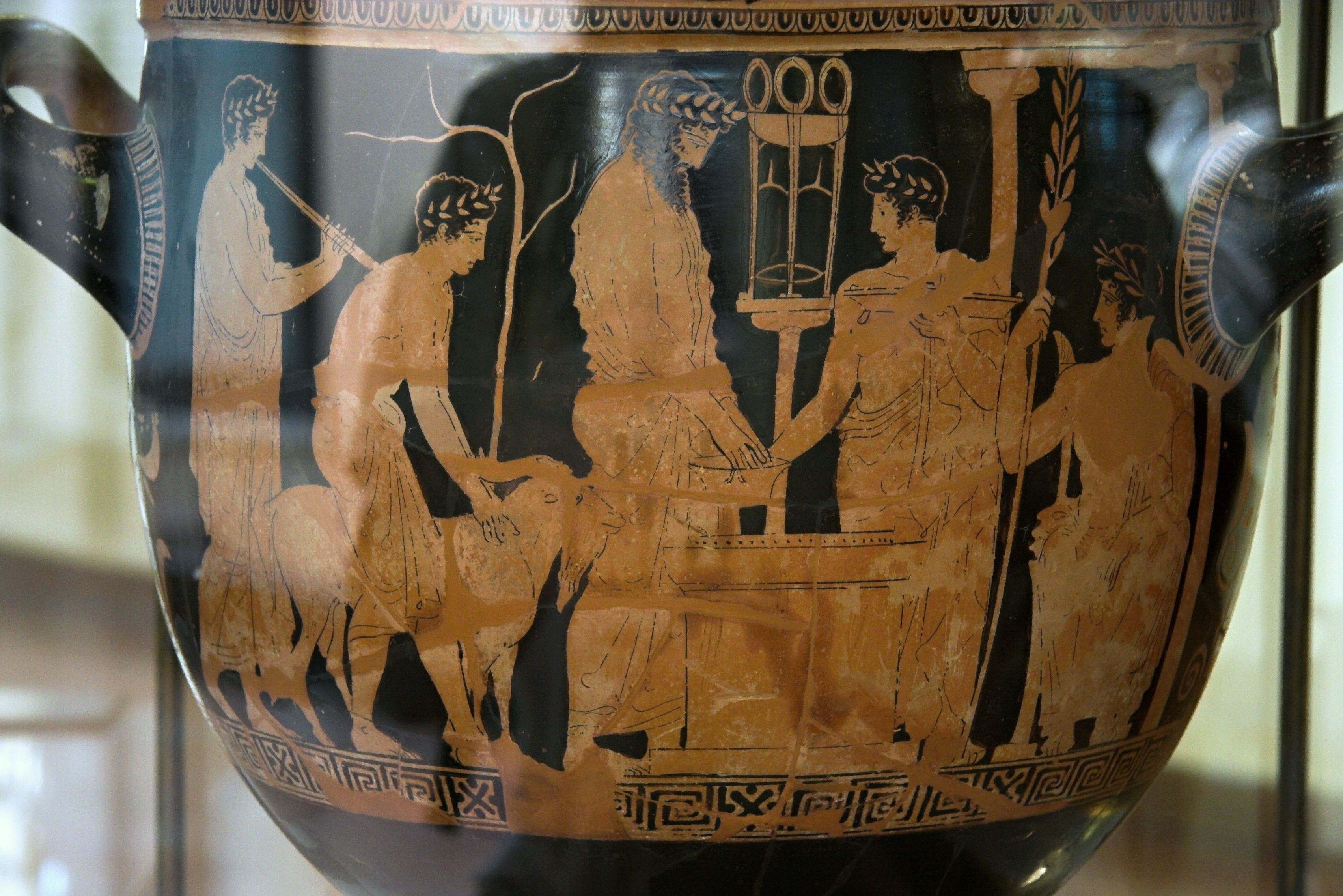 Red figure bell crater. Kleophon Painter, 420 BC. Side A: Sacrifice in the Sanctuary of Apollo at Delphi. Flute player (auletes), young sacrificant who shoves the goat towards the altar, priest with beard and with libation basin, young servant with large sacrificial plate, in backround is a votive tripod, to the right is an architrave of the Temple of Apollo, the god is represented seated on a throne, with laurel leaves. Found in cemetery Poggio Giache, in the urban area of Agrigento. Archaeological Museum of Agrigento, AG 4688.